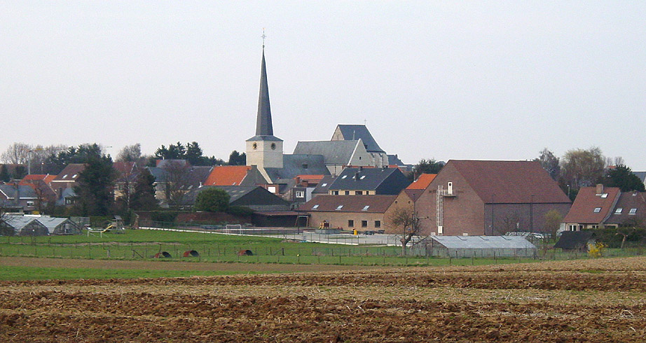 The village of Duisburg, near Tervuren, Belgium. Photograph taken by David Edgar in spring 2006.